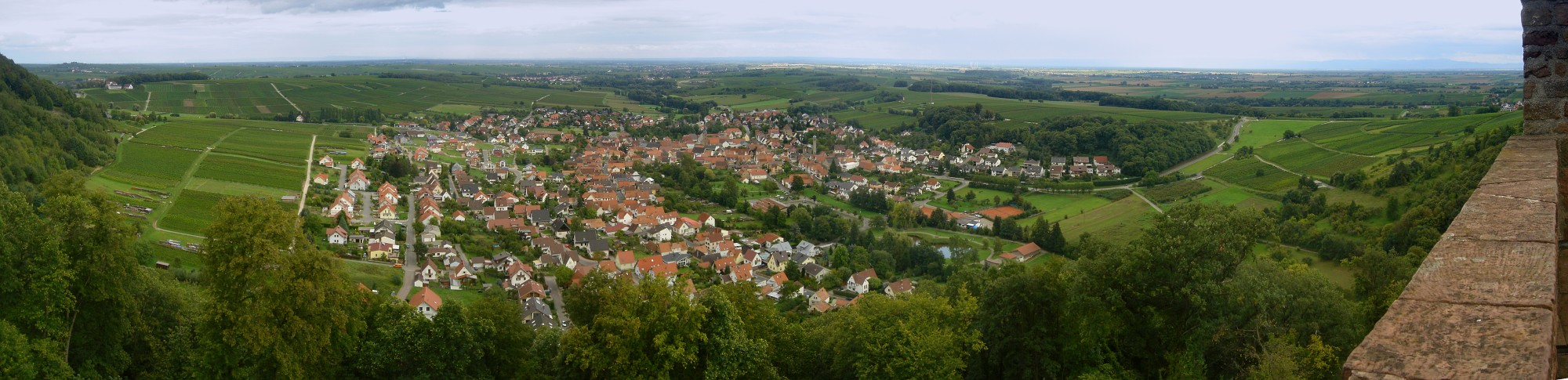 View of Klingenmünster from Burg Landeck